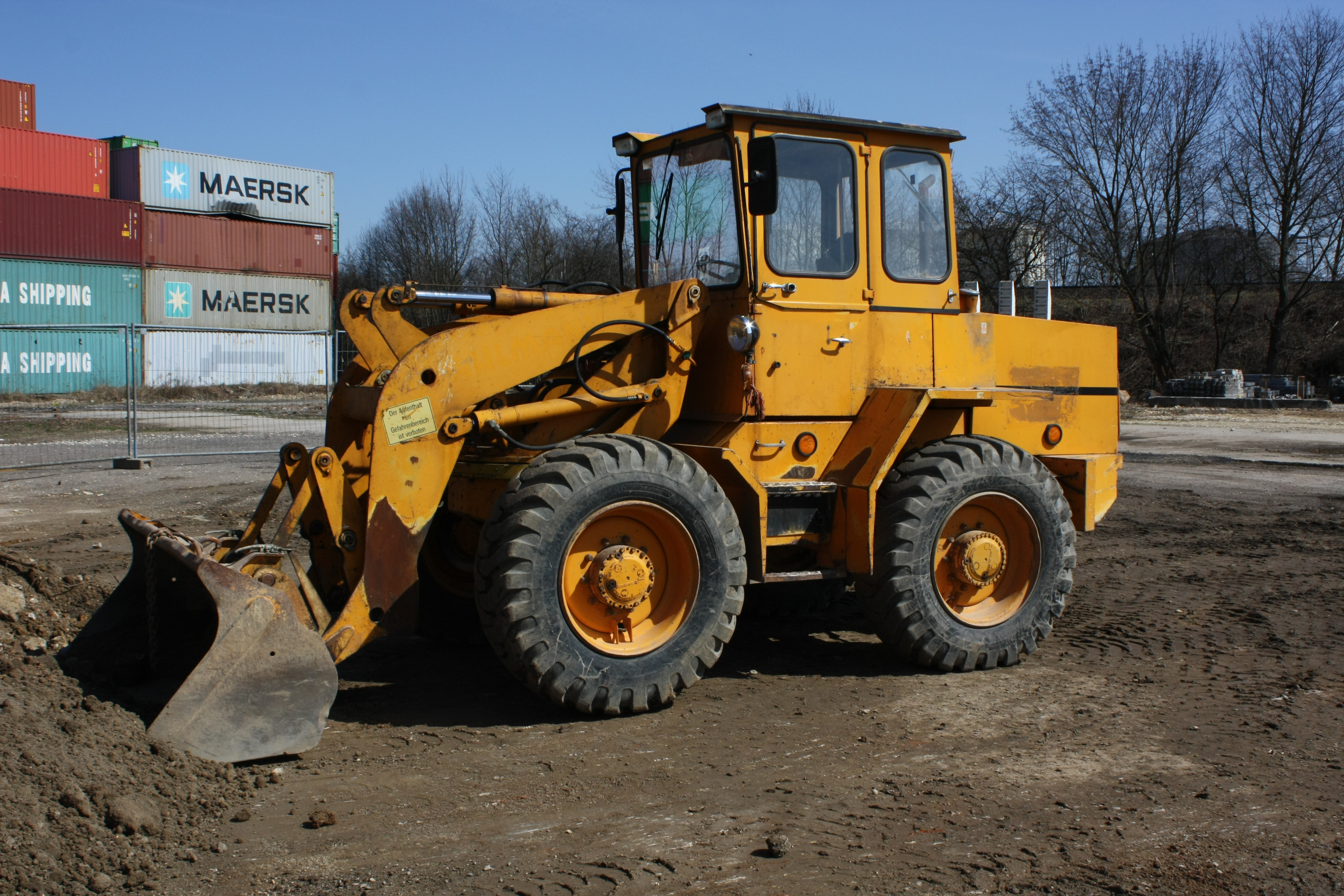 Ahlmann AS7C